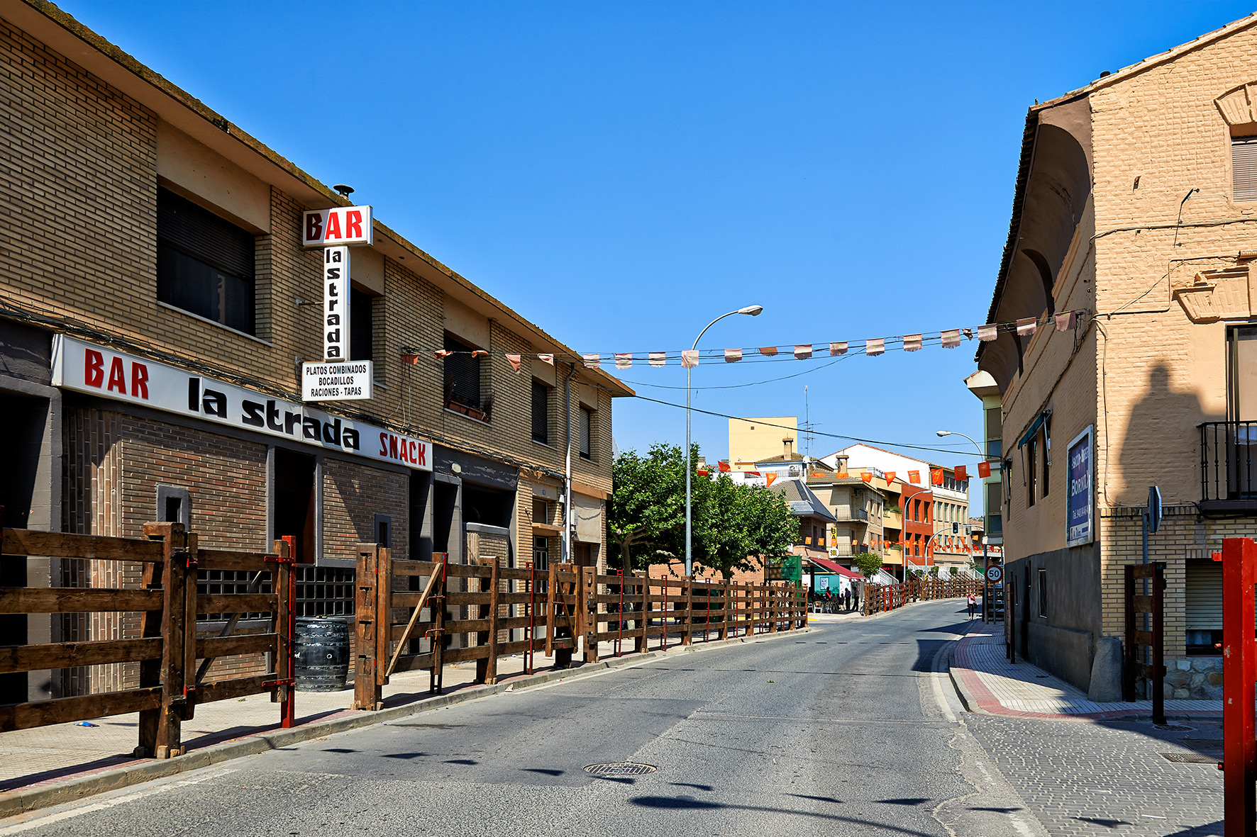 Valtierra's Paseo de Ribera at parties (Navarra, Spain)